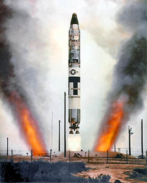 A U.S. Air Force LGM-25C Titan II ICBM undergoes a test launch from an underground silo. Unlike Titan I missiles, which had to be raised to the surface before launch, the Titan II’s liquid rocket engines were ignited while it was still in the silo. Therefore the silo had to be constructed with flame and exhaust ducts as shown in this photograph.